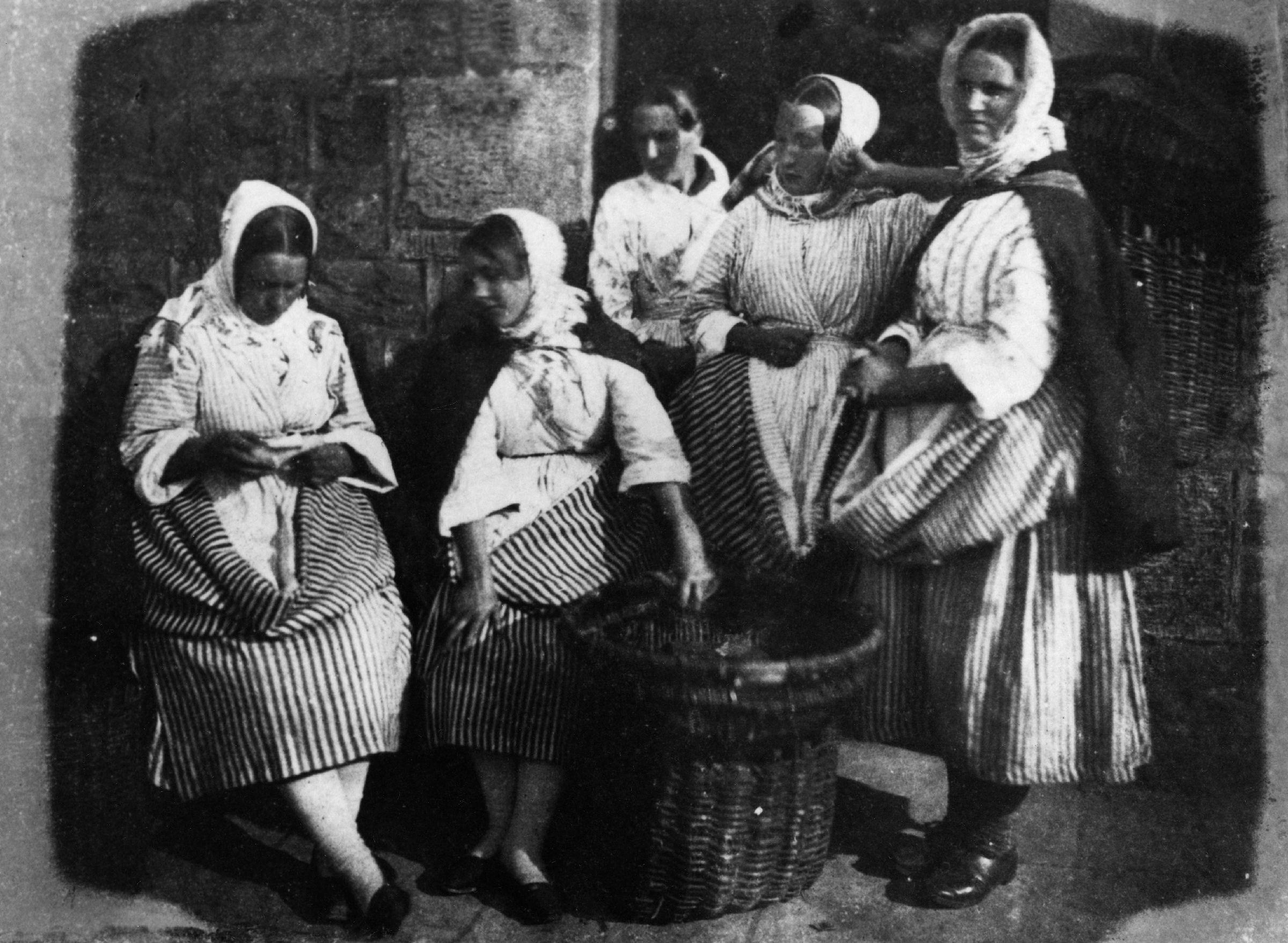 Fisher Lassies, given to the National Portrait Gallery, London in 1973. All images in this batch have been confirmed as author died before 1939 according to the official death date listed by the NPG.